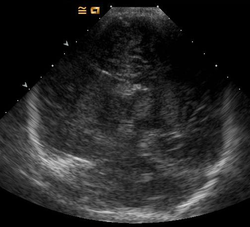 Ultrasound coronal scan of 9 m old with Morbus Leigh showing hyperechoic basal ganglia